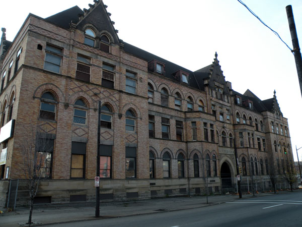 Picture of Fifth Avenue High School located at 1800 5th Avenue in the Bluff neighborhood of Pittsburgh, Pennsylvania, on December 4, 2009. The school was built in 1894, and is listed on the National Register of Historic Places. Architect: Edward Stotz. Architectural style: Gothic Revival.